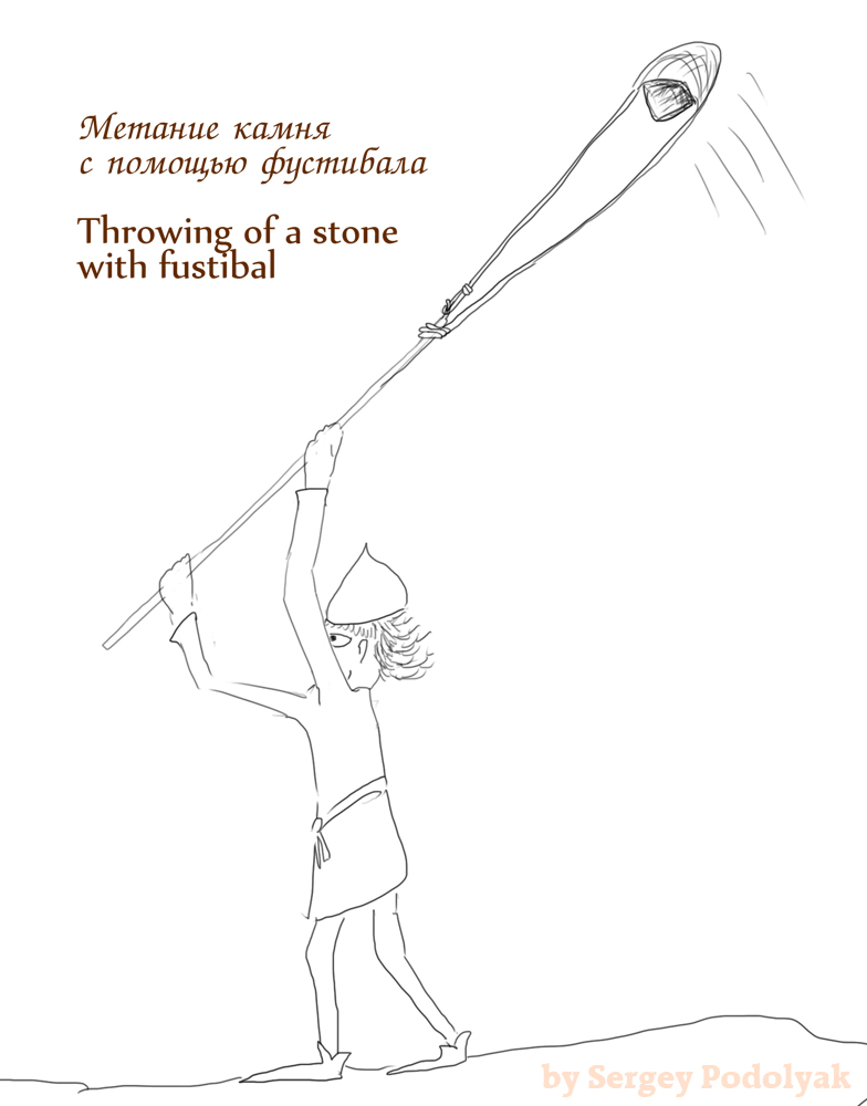 using of fustibal